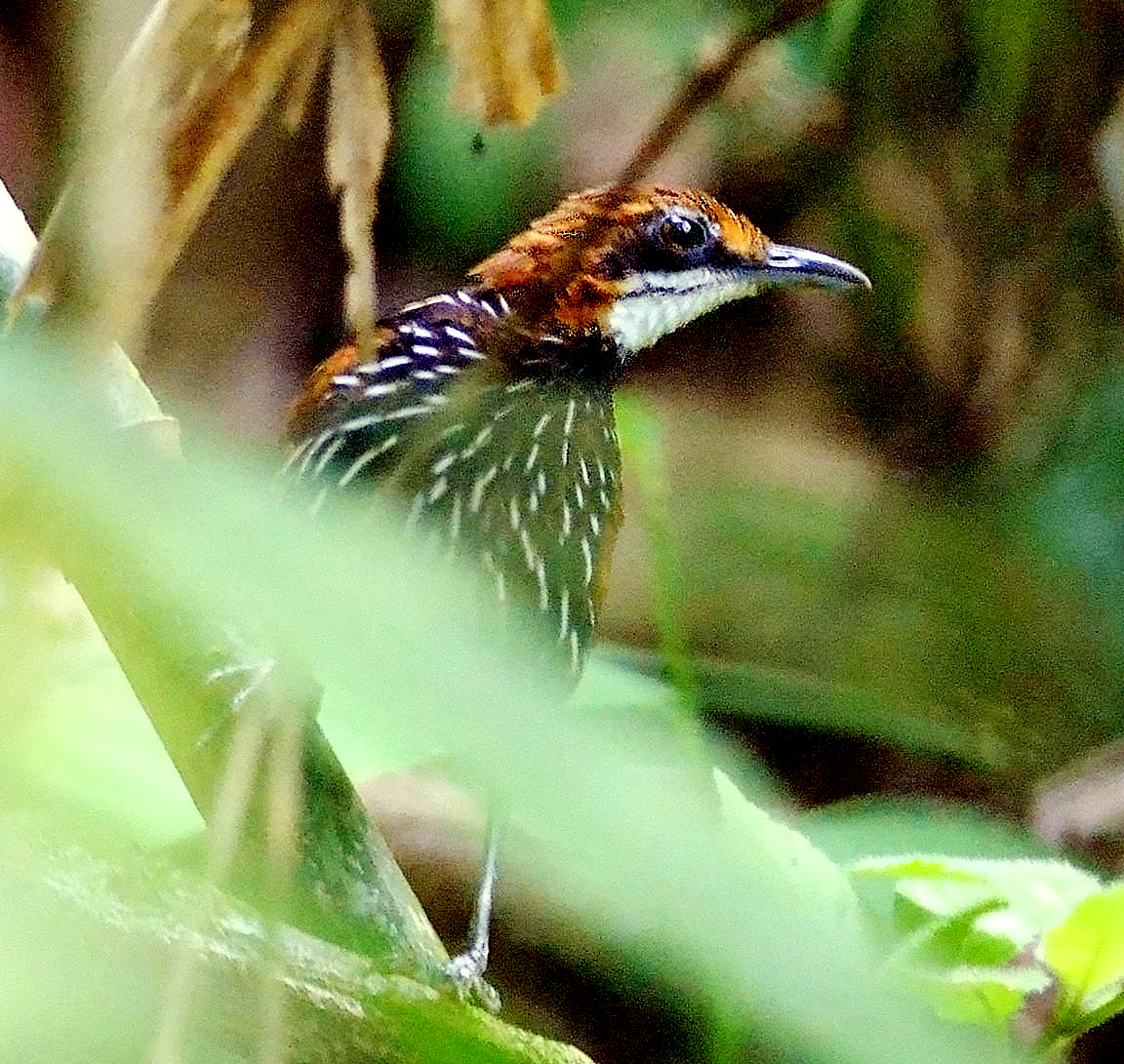 Rare Philippine endemic restricted to Palawan. Photo taken in Puerto Princesa City